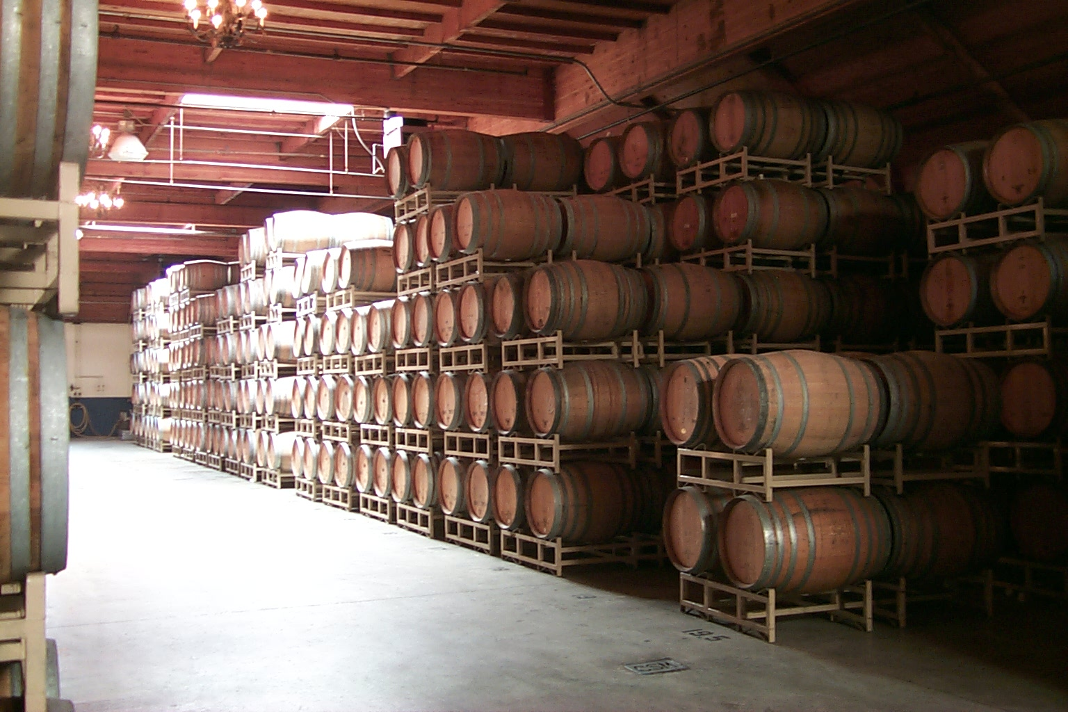 Wine barrels: Chateau Ste Michelle winery near Seattle, Washington